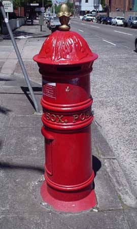 Historic Australian post box